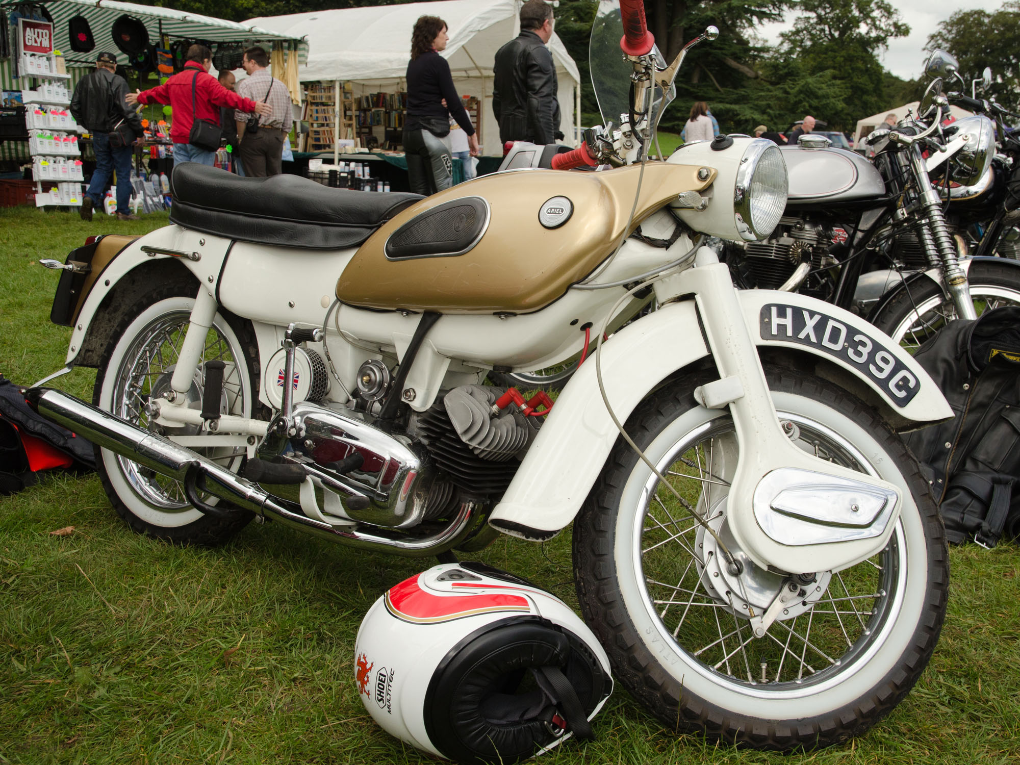 Cholmondeley Classic Car Show 31/08/2014